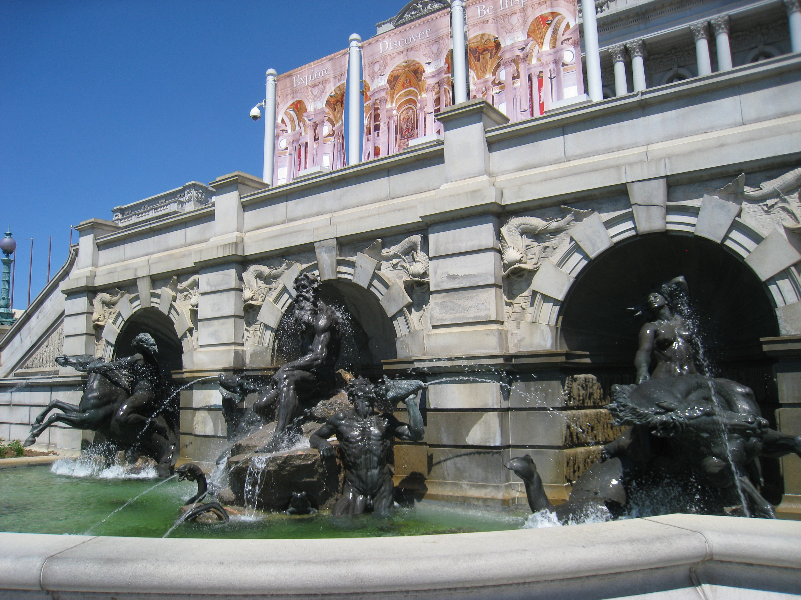 Court of Neptune Fountain by sculptor Roland Hinton Perry (1870–1941), front entrance of the Library of Congress, Washington, DC, USA.